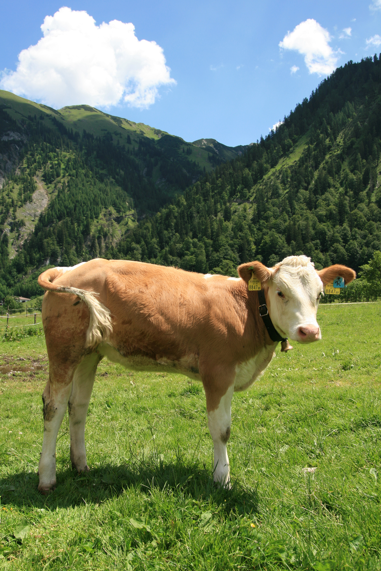 Description: Cattle, colloquially referred to as cows, are domesticated ungulates, a member of the subfamily Bovinae of the family Bovidae. As shown: Simmental is a brown-white cattle breed originating in the Simme valley in Switzerland